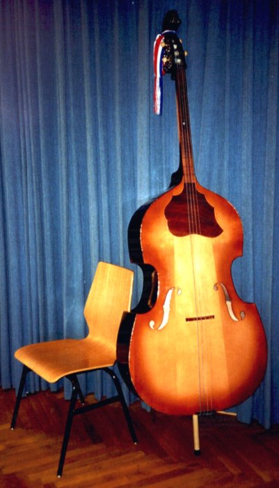 Berda, a Croatian instrument used in tamburica ensembles. Size compared to that of a chair.